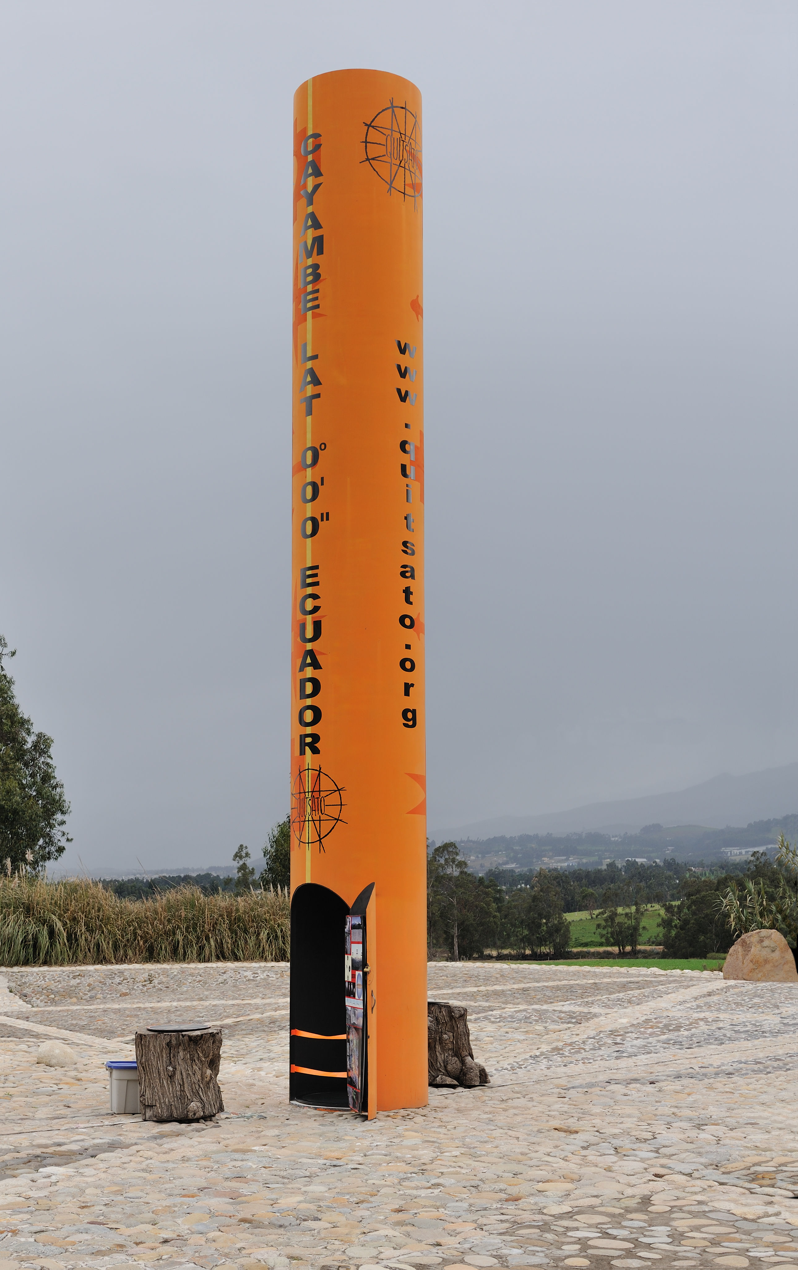 Ecuador: Sundial exactly positioned on the equator line near the town of Cayambe. Altitude: 2747 m. The equator is the lighter line that runs through the column. The site is managed by a non governmental organization of volunteers.